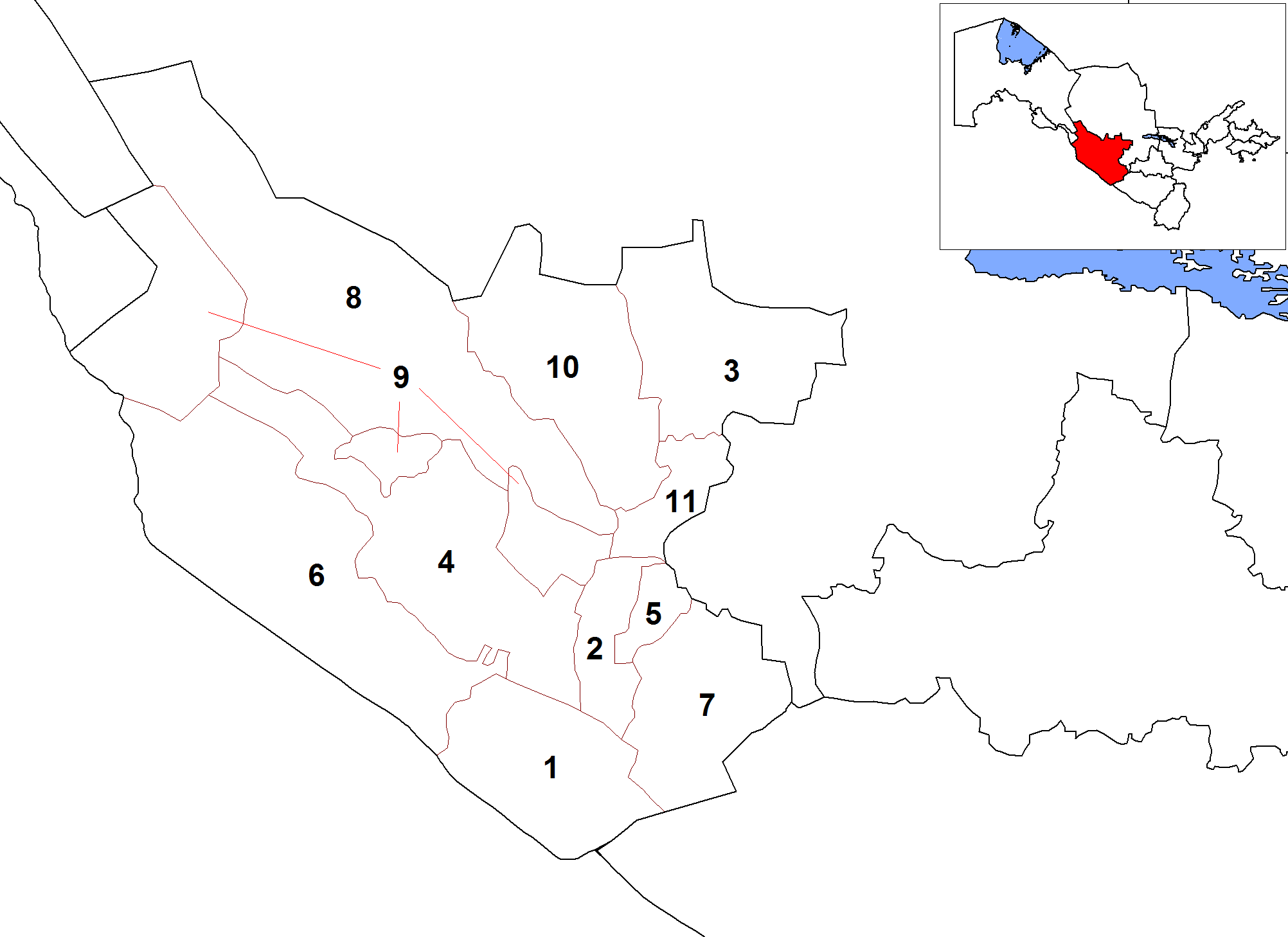 Map of the districts (tuman) of the province (viloyat) of Bukhara in Uzbekistan.